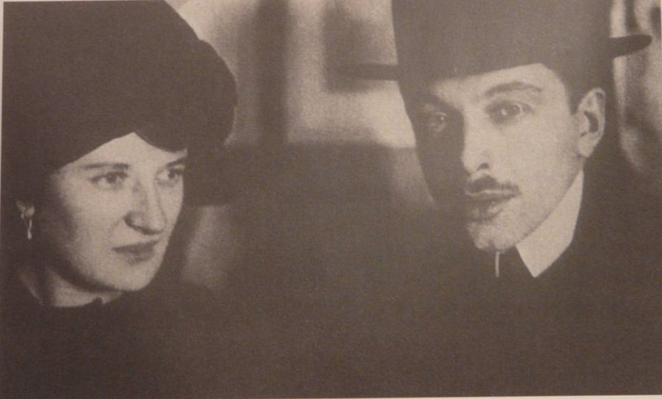 Ernst Ludwig Kirchner und Doris Grosse in Dresden